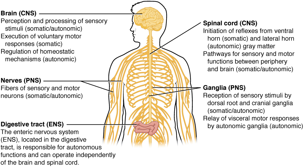 Version 8.25 from the Textbook OpenStax Anatomy and Physiology Published May 18, 2016